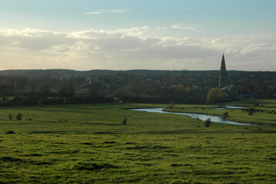 View across the River Great Ouse to Olney, Buckinghamshire